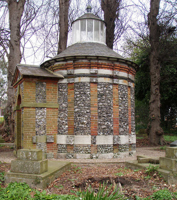 Belvedere Chapel In Tenterden Drive, Hales Place, Canterbury. Surrounded by graves of Franciscans. No longer in use but occasionally opened for viewing.